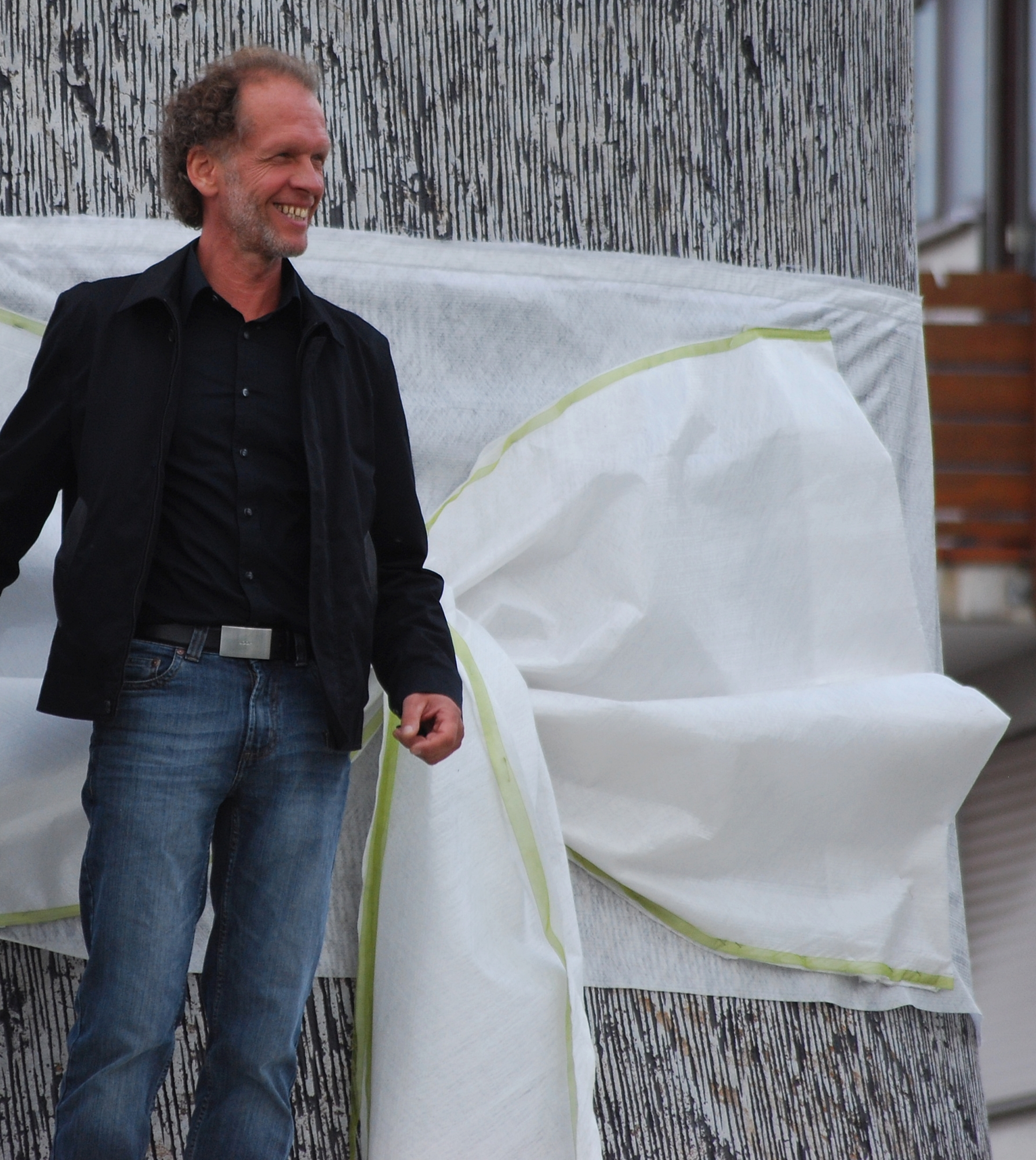 The German artist and sculptor Dieter Kränzlein (* 1962) in front of his sculpture in the center of the new traffic circle in Neckarwestheim, Baden-Württemberg, at its opening ceremony on 15th September 2013.